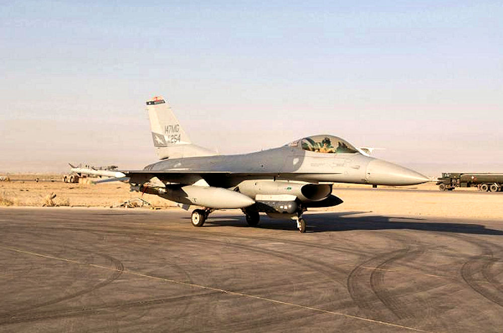 111th Fighter Squadron - General Dynamics F-16C Block 25E Fighting Falcon 84-1309 at Balad AB, Iraq with the 111th FS seen here taxiing following its mission on September 4th, 2005 where it reached the 6,000 flying-hour mark. It's the first F-16C model to reach this milestone and one of only three F-16 models to accomplish the feat. [USAF photo by SSgt. Chad Chisholm ]